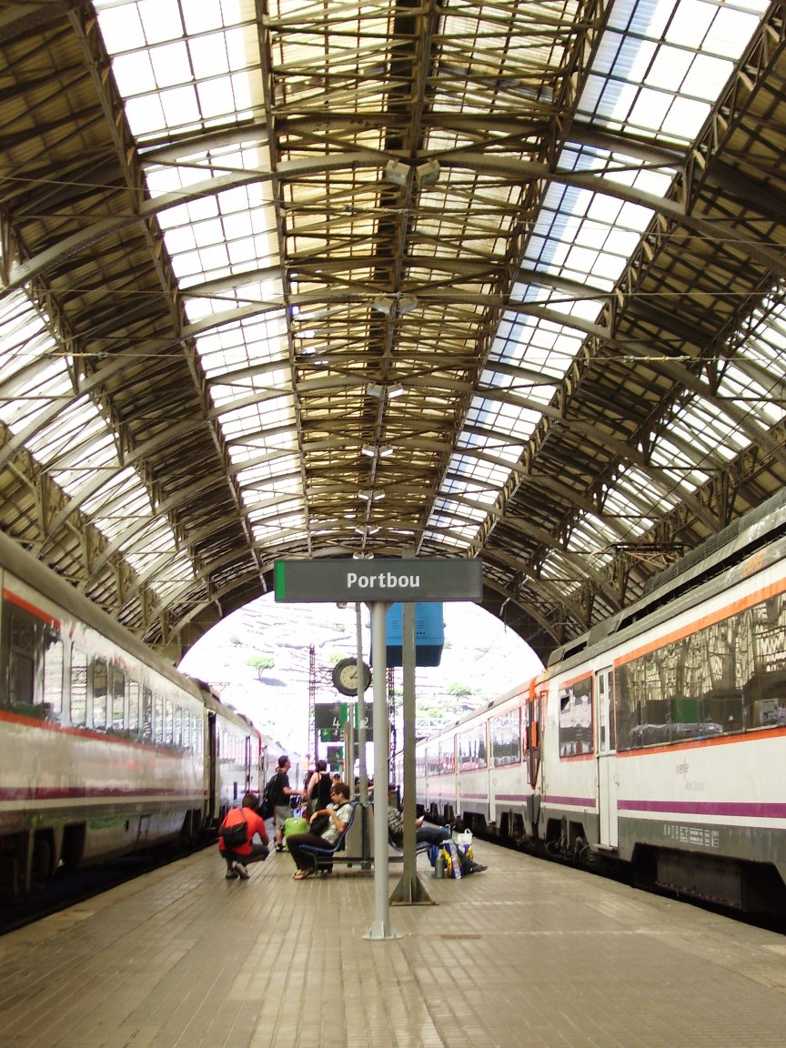 Platform in Portbou railwaystation